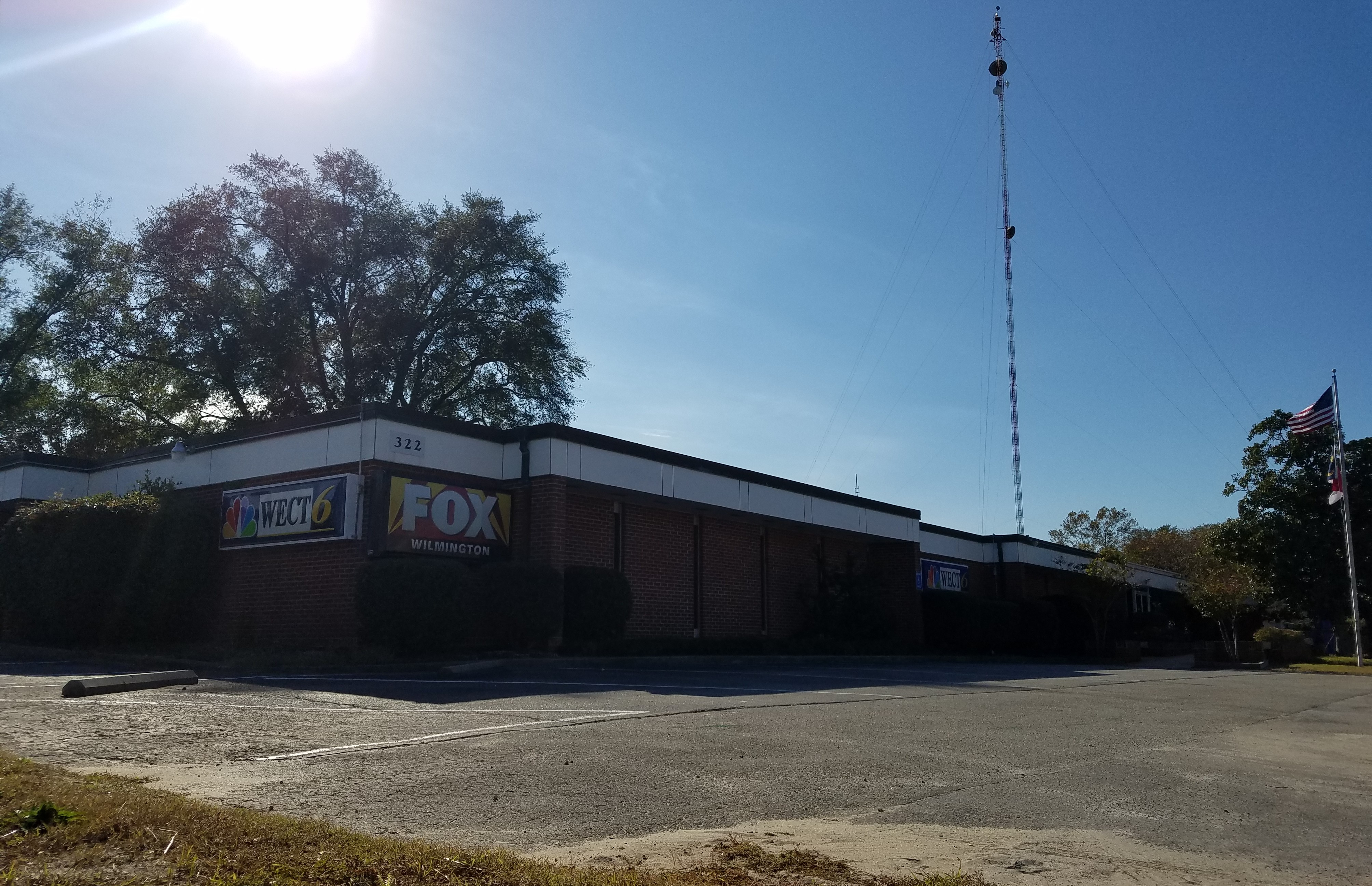 WECT, channel 6, is an NBC-affiliated television station located in Wilmington, North Carolina, USA. The station also operates Fox affiliate WSFX-TV (channel 26)